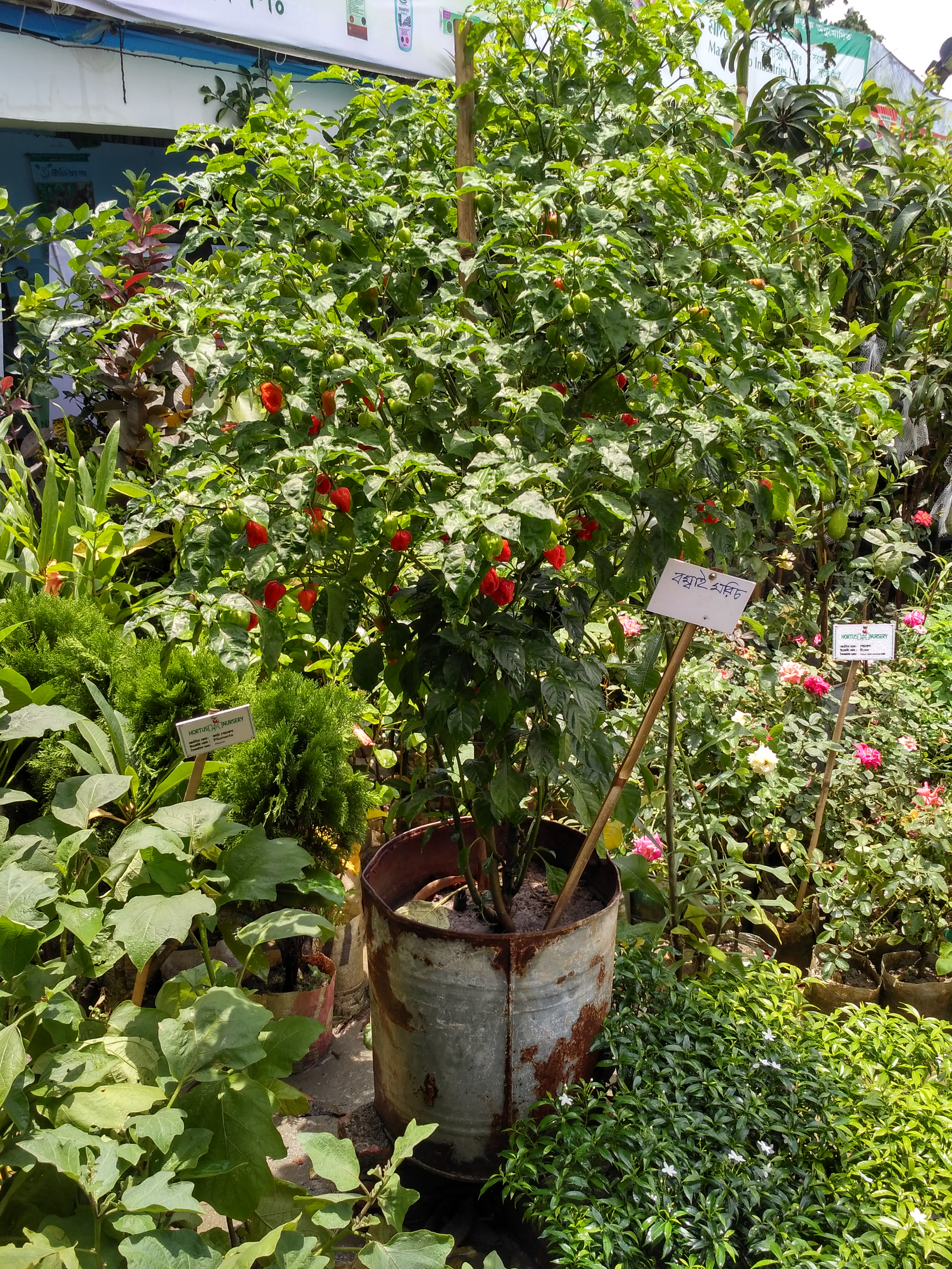 Picture of Bhut Jolokia (Capsicum Chinense Bhut Jolokia) with tree. This photo was captured from National Tree Fair 2018, at Sher-e-Bangla Nagar, Dhaka, Bangladesh. Bengali : নাগা মরিচ বা বোম্বে মরিচ/ বোম্বাই মরিচ।